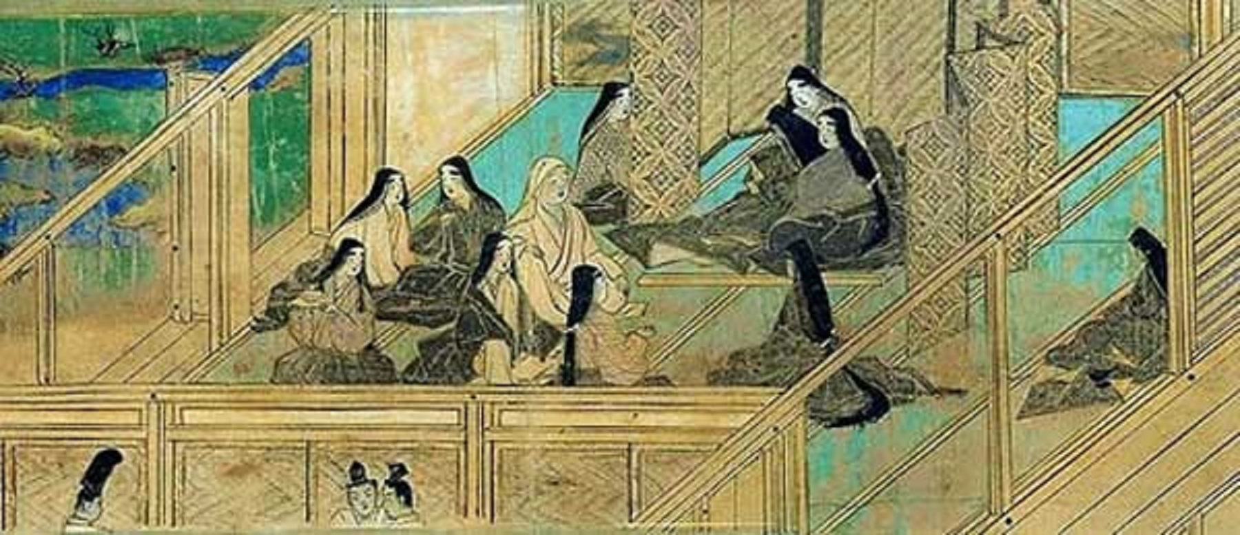 The illustrated biography of priest Hōnen (紙本著色法然上人絵伝). Part of the handscroll (Emakimono), illustrated biographies of famous priests (高僧伝絵, kousōdene?), 48 volumes. Color on paper. Located at Chion-in, Kyoto, Japan. The scroll has been designated as National Treasure of Japan in the category paintings.